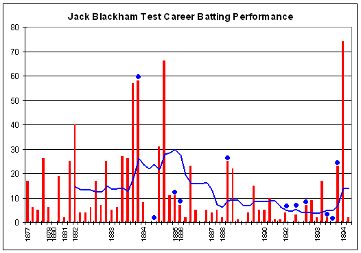 Test batting chart of Jack Blackham. Red columns are the runs in the innings. Blue dots indicate not outs. Blue line is average in the last ten innings. Thanks to Raven4x4x for providing the template.